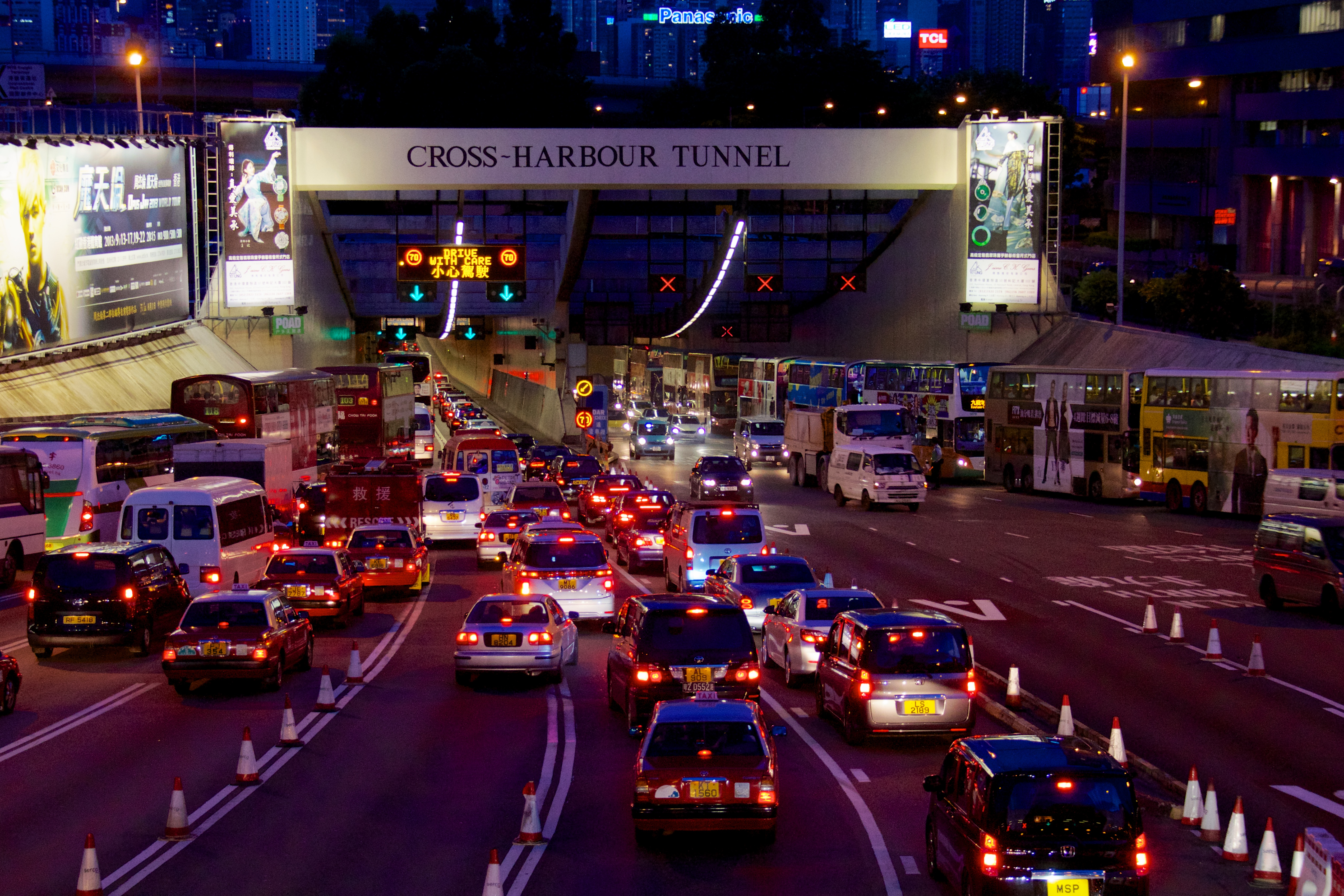 Cross-Harbour Tunnel, Hung Hom side, Hong Kong.